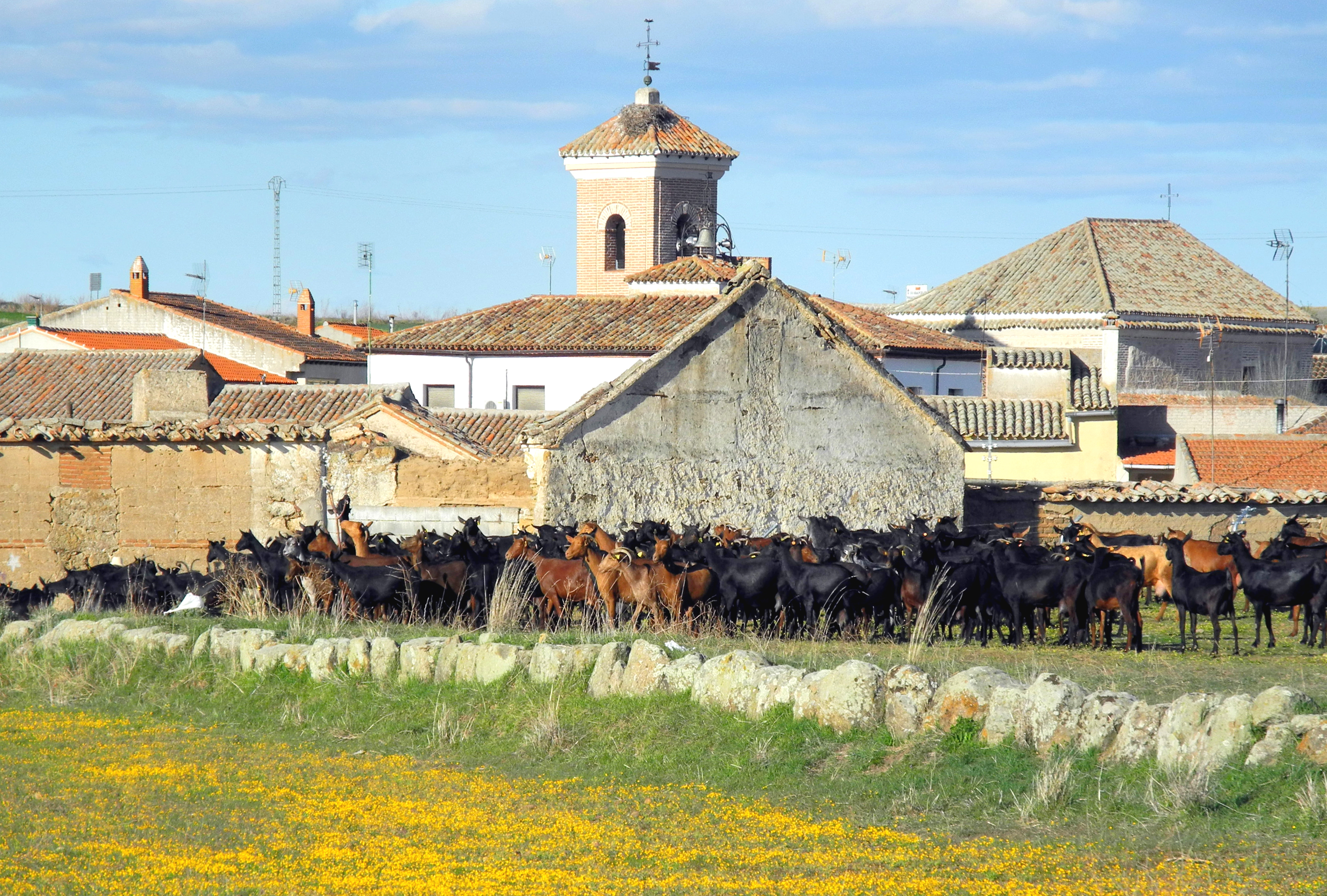 Goat herd going back home. Santa Ana de Pusa, Toledo, Castile-La Mancha, Spain